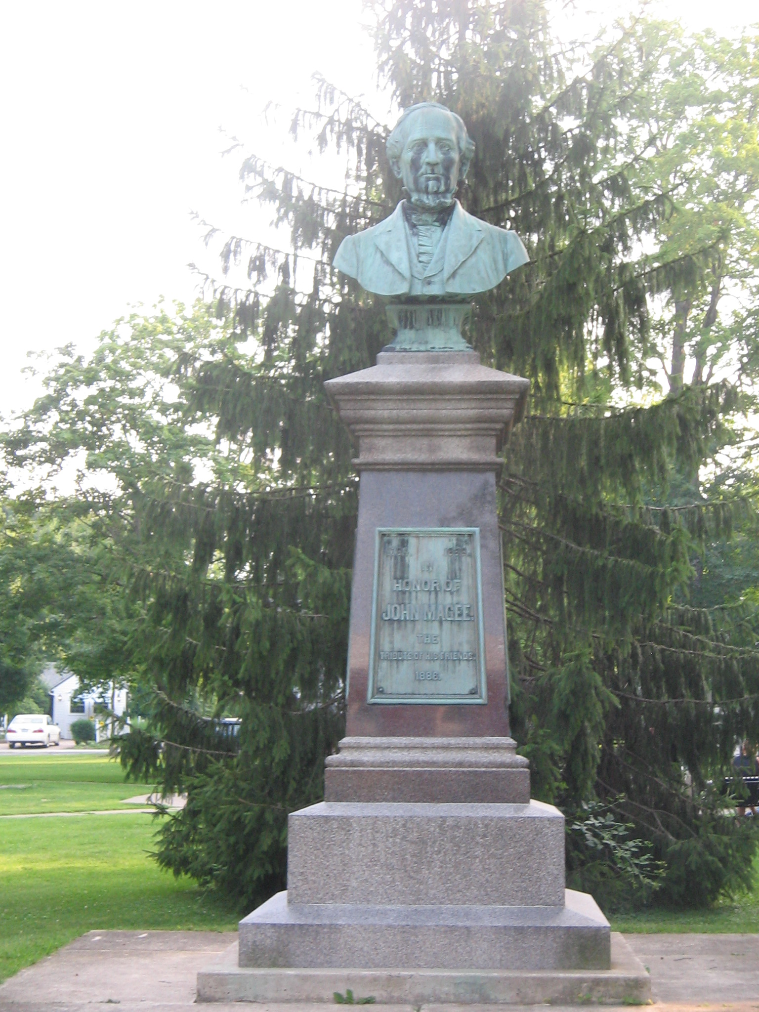 John Magee Monument in Main Square in Wellsboro, Tioga County, Pennsylvania, United States